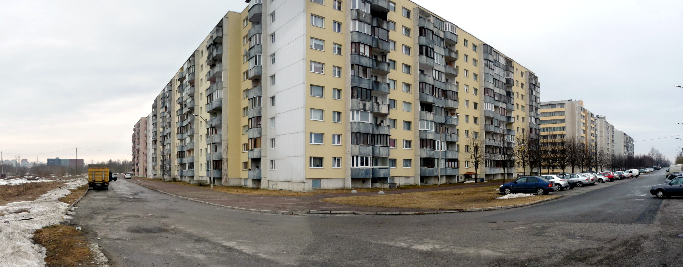 Last modification ever of 1-515/9Ш apartment blocks seen from Tondiraba street in Tallinn